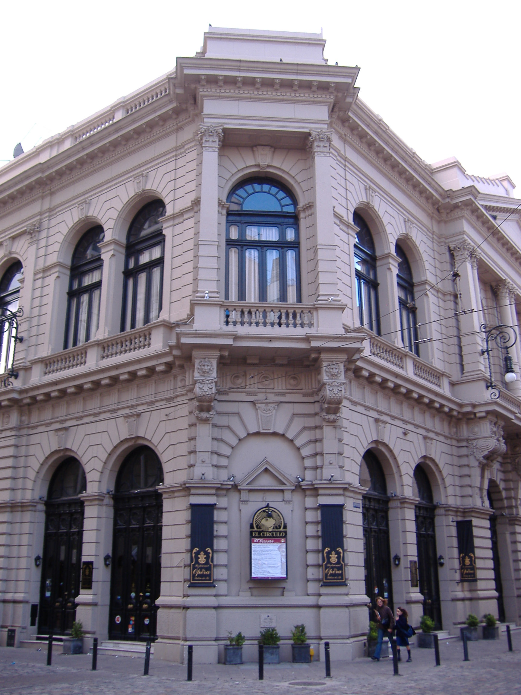 El Círculo Theater (Teatro El Círculo), an artistic landmark of Rosario, Argentina. The entrance is at the corner of Laprida St. and Mendoza St., in the city center.